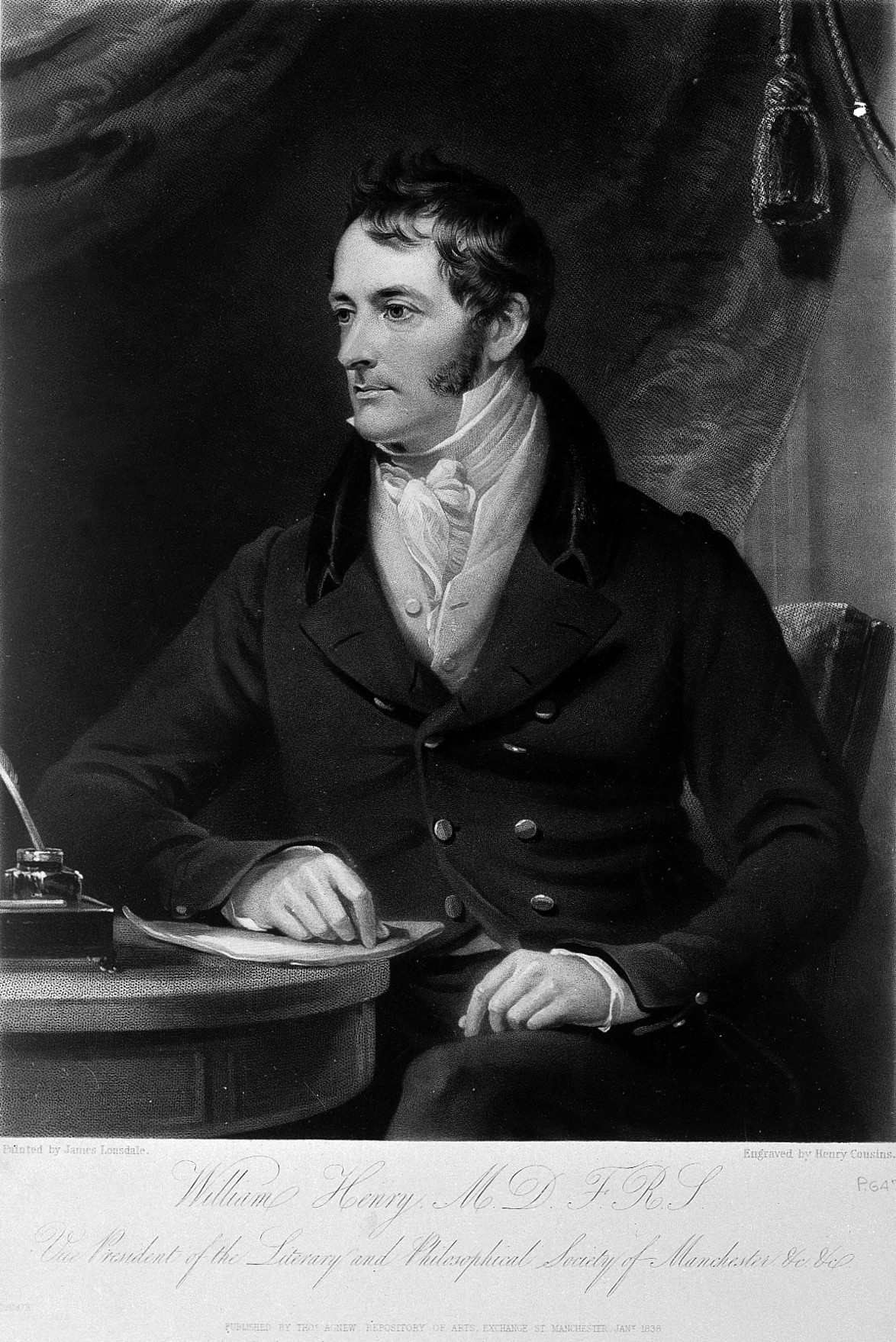 Portrait of William Henry, 1774-1836. Iconographic Collections Keywords: William Henry; Henry Cousins; James Lonsdale